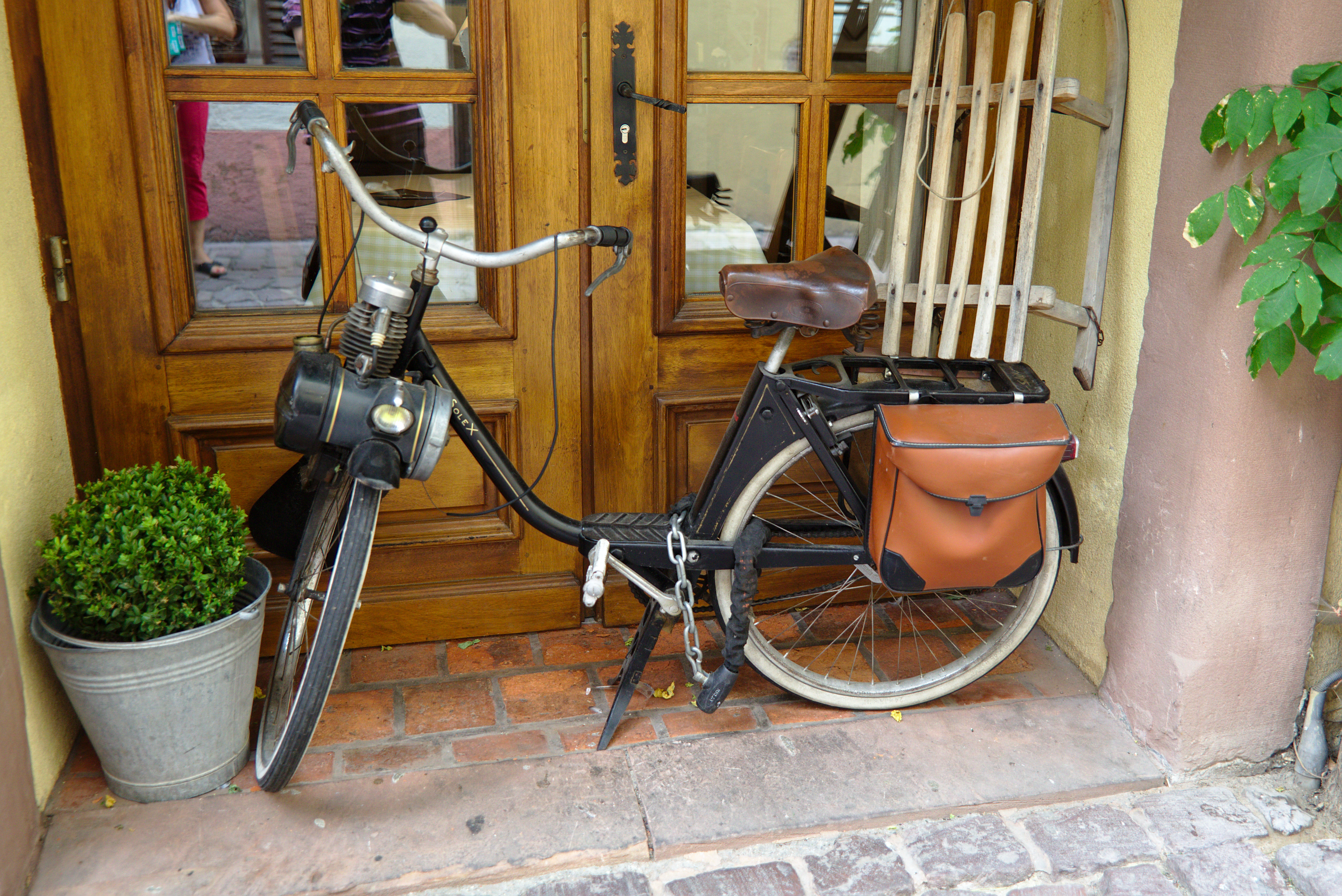 Velosolex 1010 in Colmar